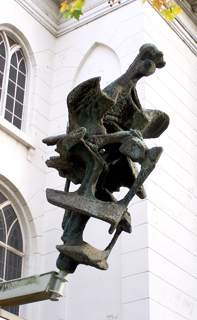 Statue Flying/Bird made by Wessel Couzijn in 1955. Bought by Henk Bremer for the Olijftak church, later placed above the Herengracht-side entrance of the Singelchurch in Amsterdam.